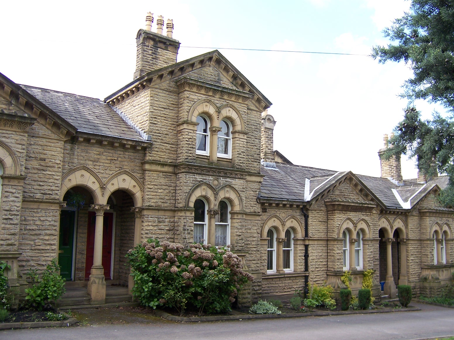 Almshouses in Saltaire, West Yorkshire (England) own work; photo taken on 23 May 2006